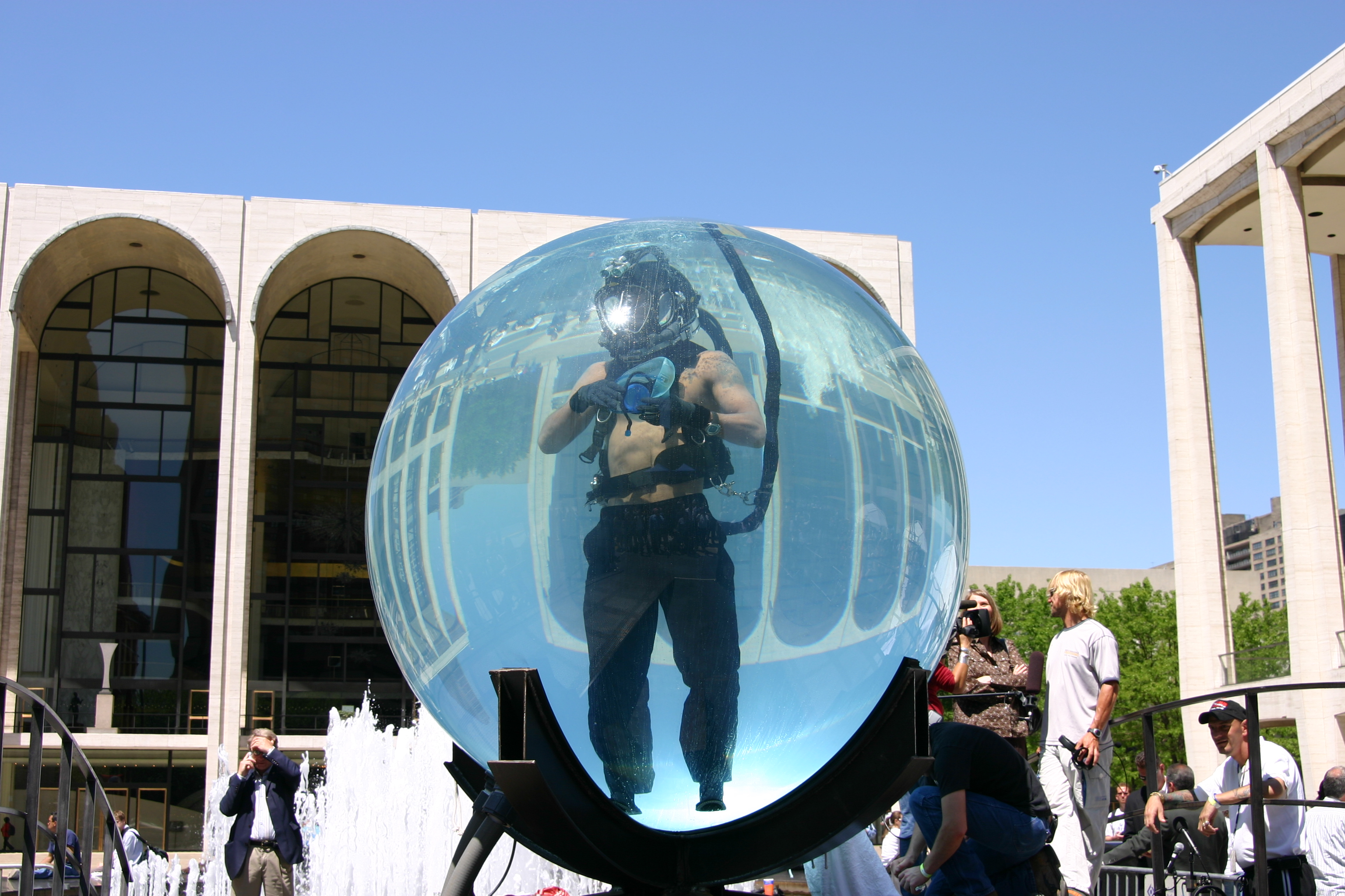 David Blaine performing his "Drowned Alive" stunt at the Lincoln Center in New York.